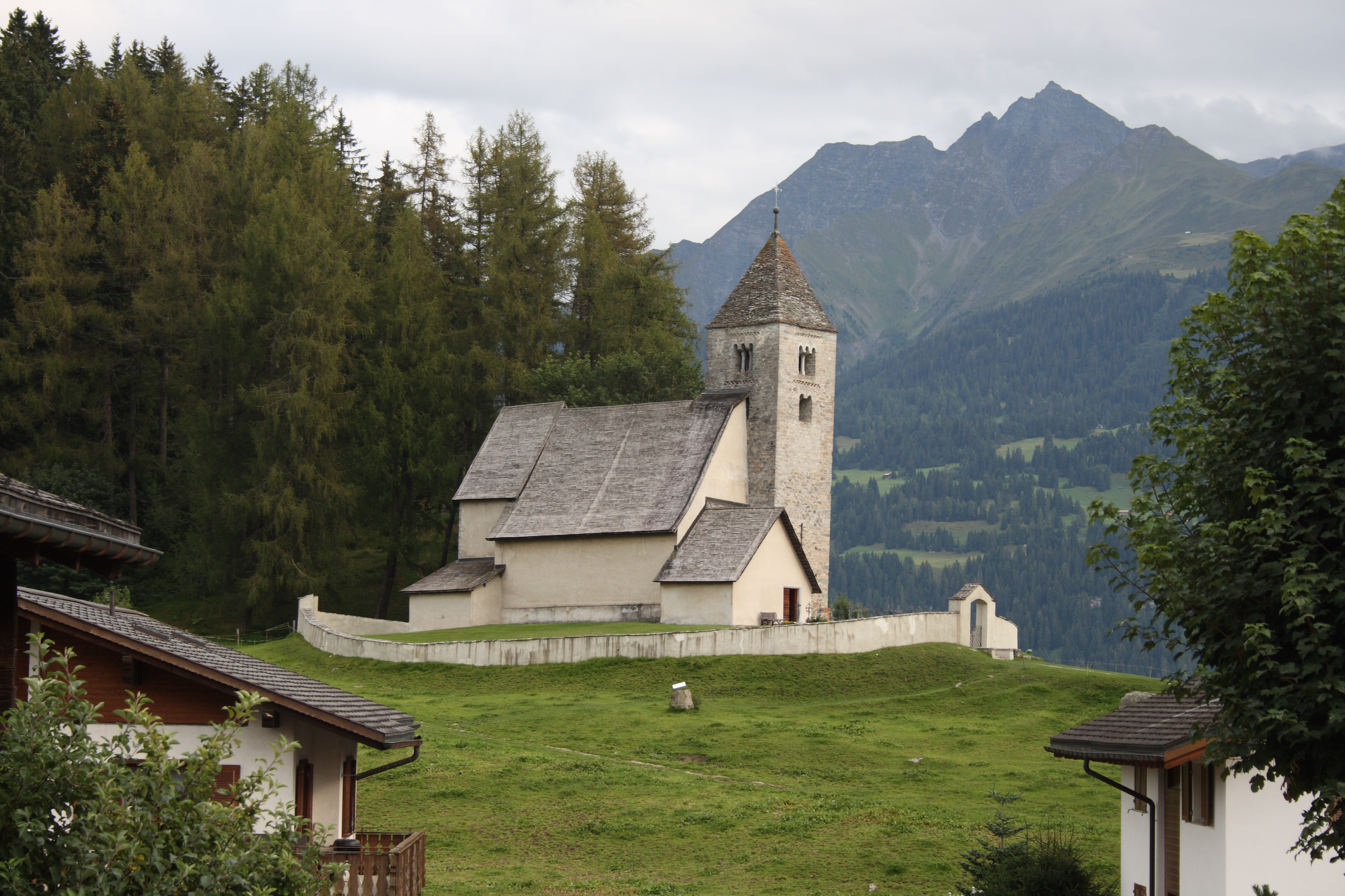 Church in Falera, Canton of Graubunden